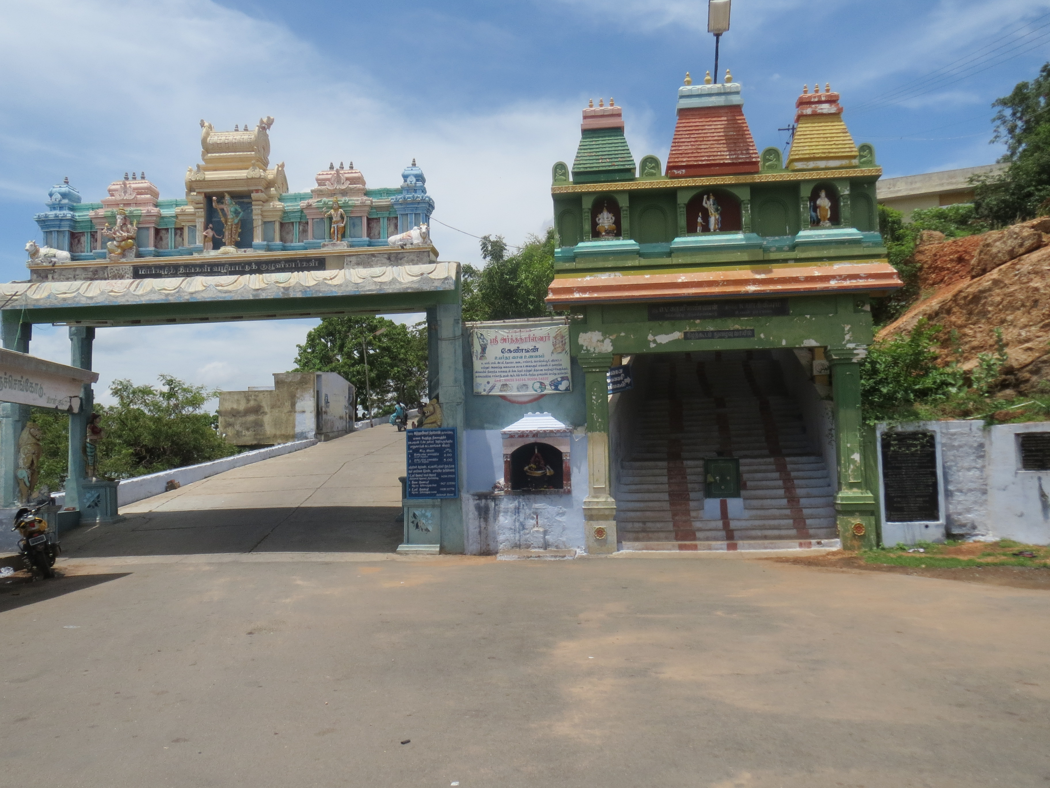 As mountain travel ends by vehicle this is the two way entrance to Thiruchengodu Arthanareeswarar Temple.